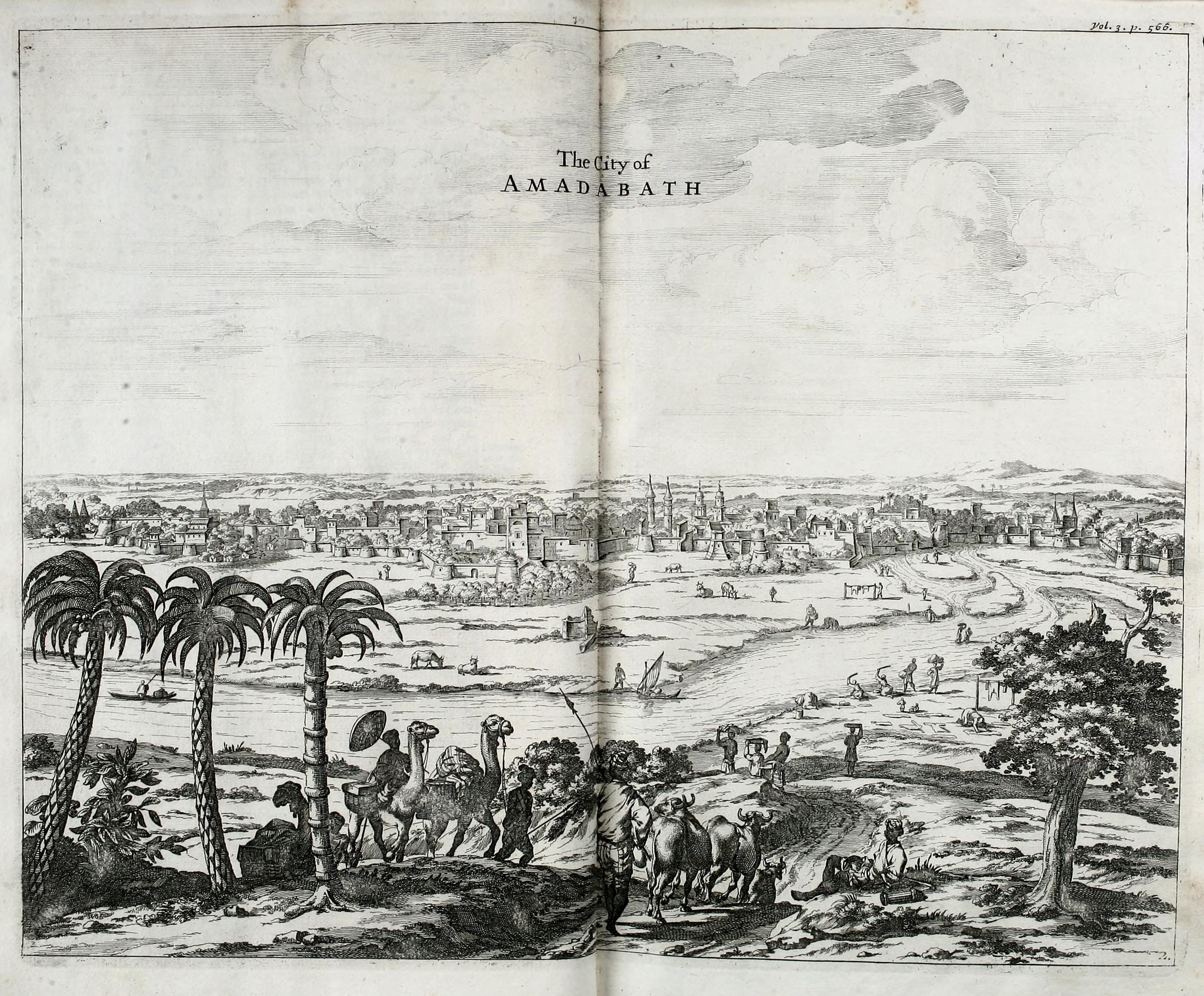 Drawing by Dutch traveller based on description of city. Appeared in his original dutch book and later in English book.